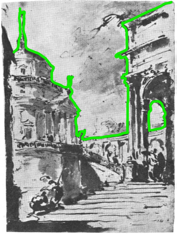 Ascent and Descent